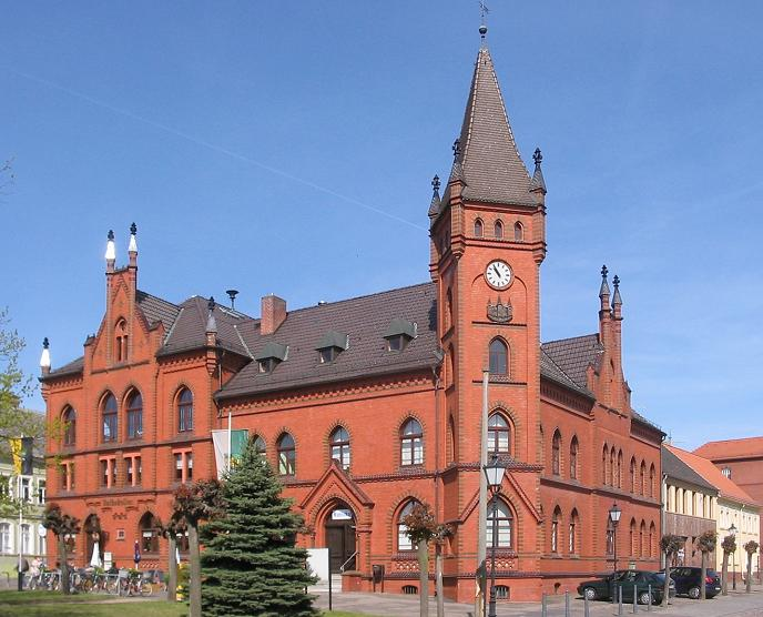 Town hall in Zahna, built in 1897. The town Zahna, district Wittenberg, state Saxony-Anhalt, Germany, is situated in the Nature park Fläming.